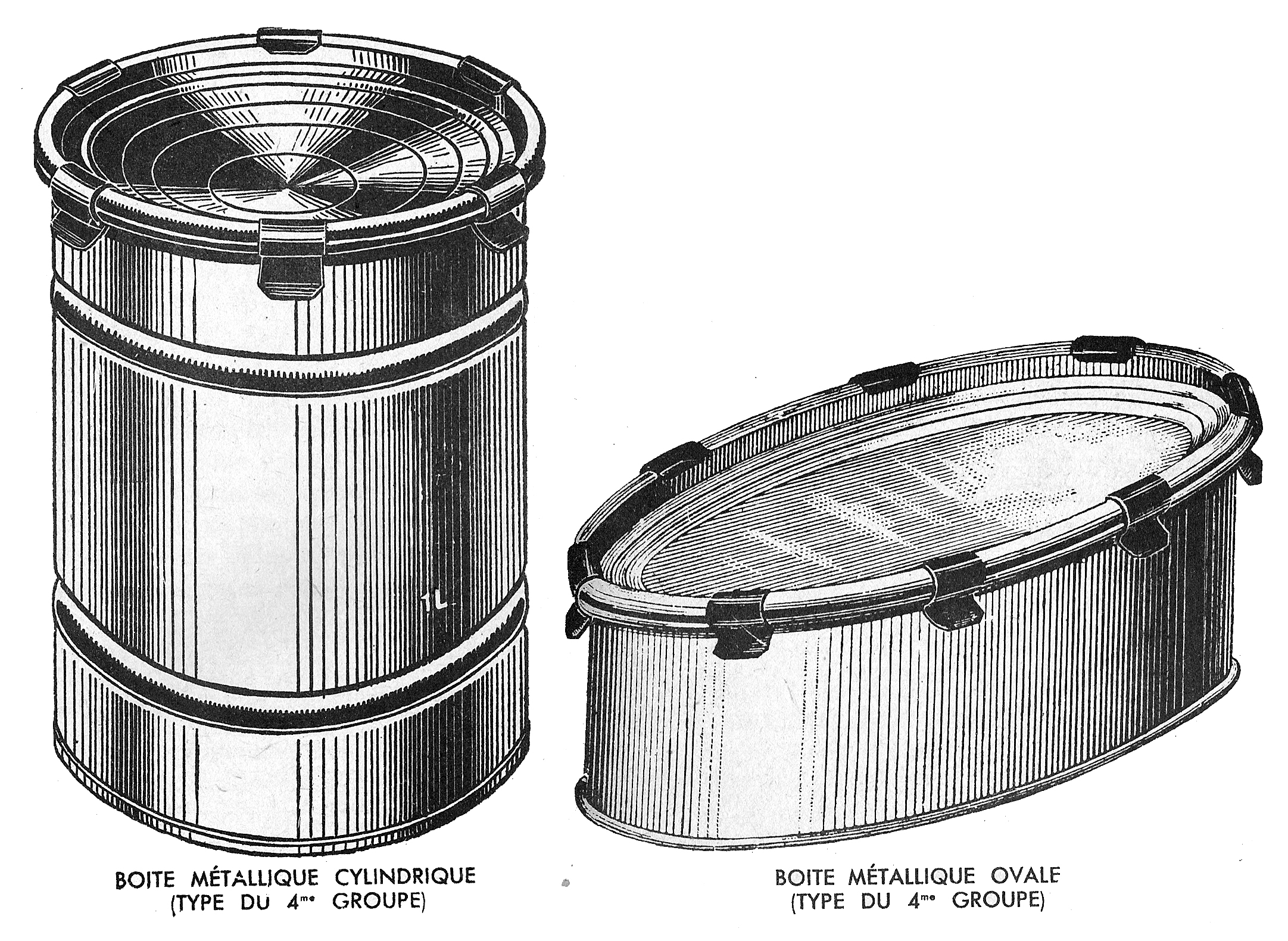 Assembled from two illustrations (on pages facing each other) of cans with independent cover, maintained by staples, for domestic use. The original book is in the Gourmet Library of Hermalle-sous-Huy (Belgium).